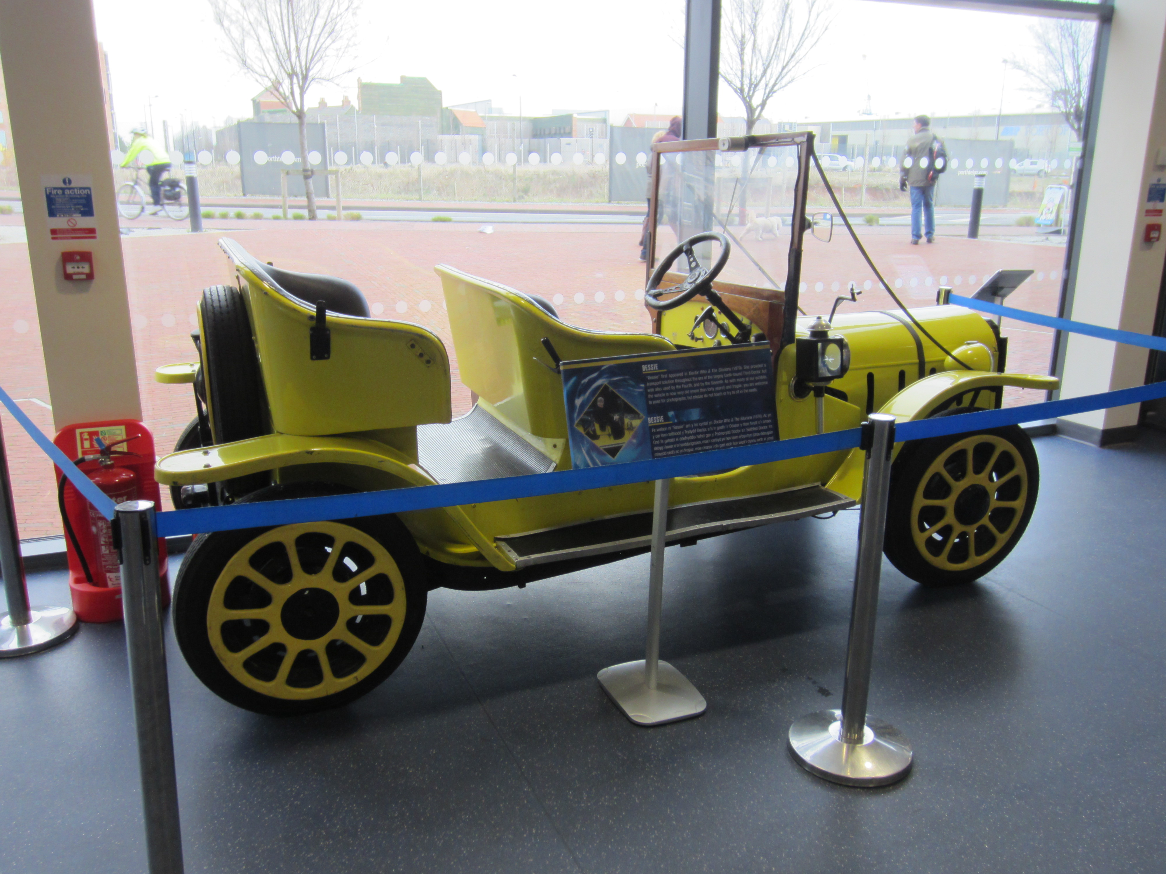 Bessie, car used in Doctor Who, displayed at the Doctor Who Experience in Cardiff. “ Bessie first appeared in Doctor Who and the Silurians (1970). She provided a transport solution throughout the era of the [???] Earth-bound Third Doctor, but was also used by the Fourth, and by the Seventh. As with many of our exhibites, the vehicle is now very old (more than forty years!) and fragile... ”